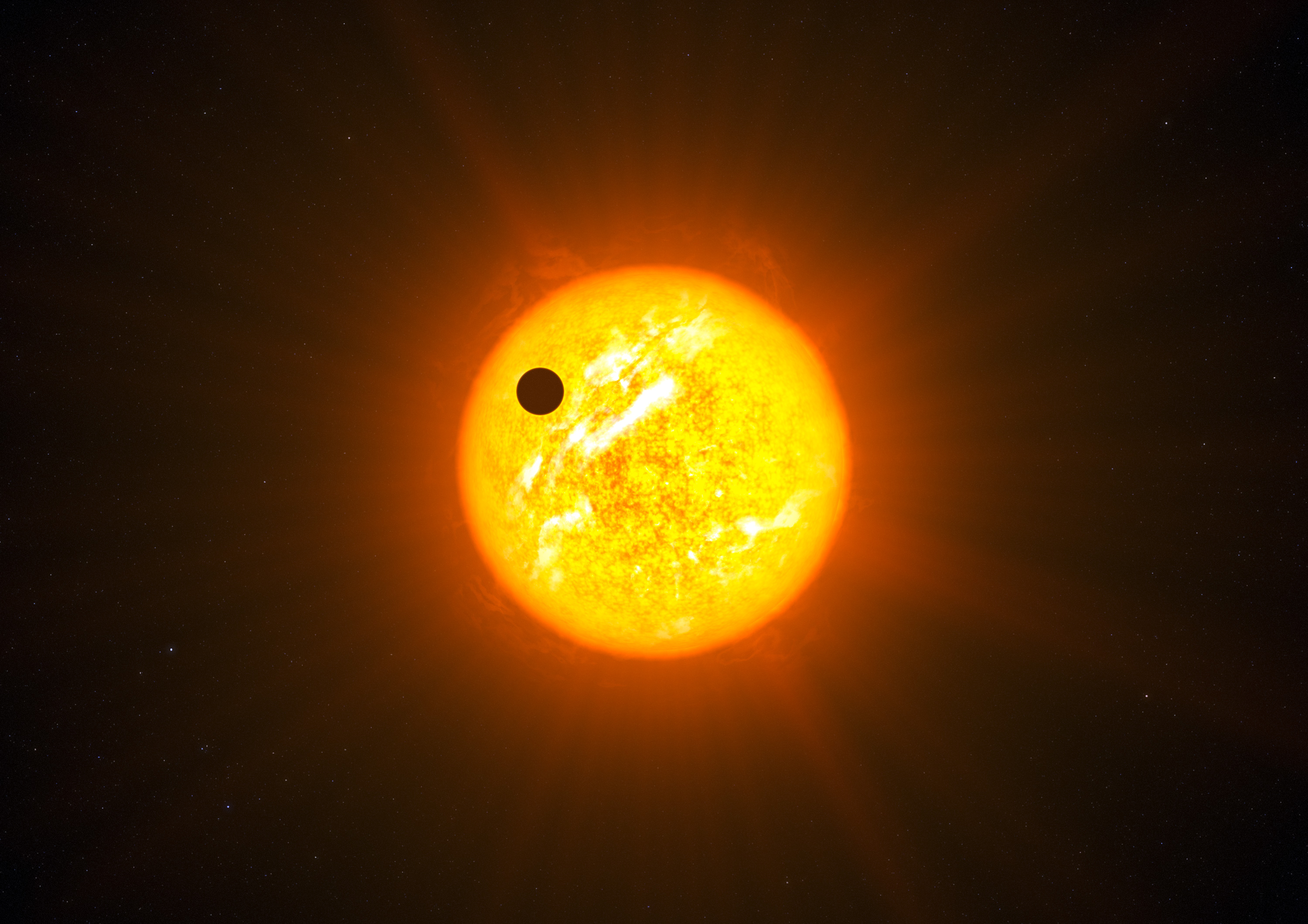 Up to now it was expected that exoplanets would all orbit in more or less the same plane, and that they would move along their orbits in the same direction as the star’s rotation — as they do in our Solar System. However, new results unexpectedly show that many exoplanets actually orbit at a large angle to their star’s spin axis. In the case shown here (WASP 8b) the orbit is completely reversed, or retrograde.